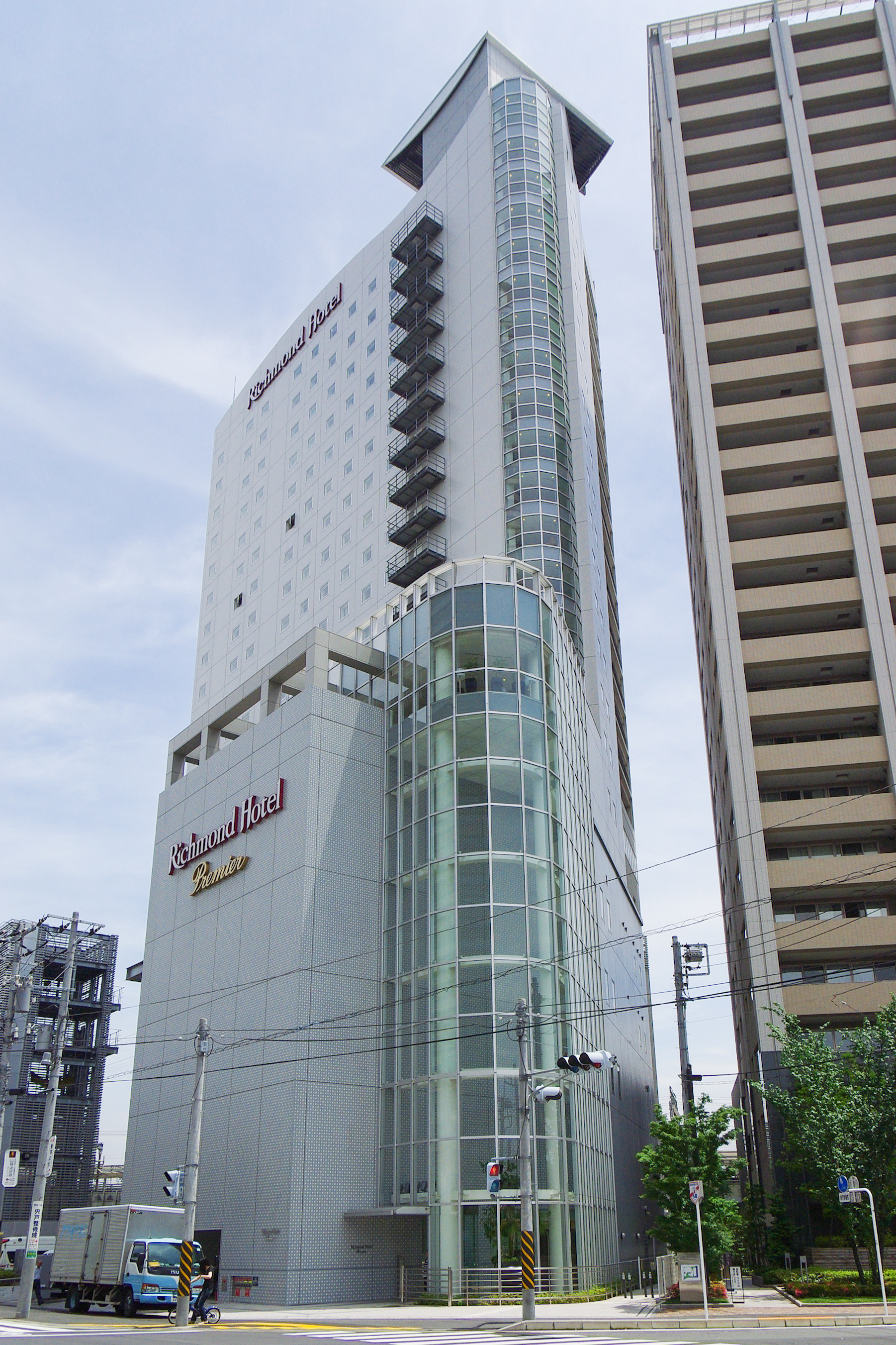 Photograph of Nakahara Fire Station and Richmond Hotel Premier Musashi-Kosugi Complex "Claire Kosugi" in Nakahara-ku, Kawasaki, Kanagawa Prefecture, Japan.